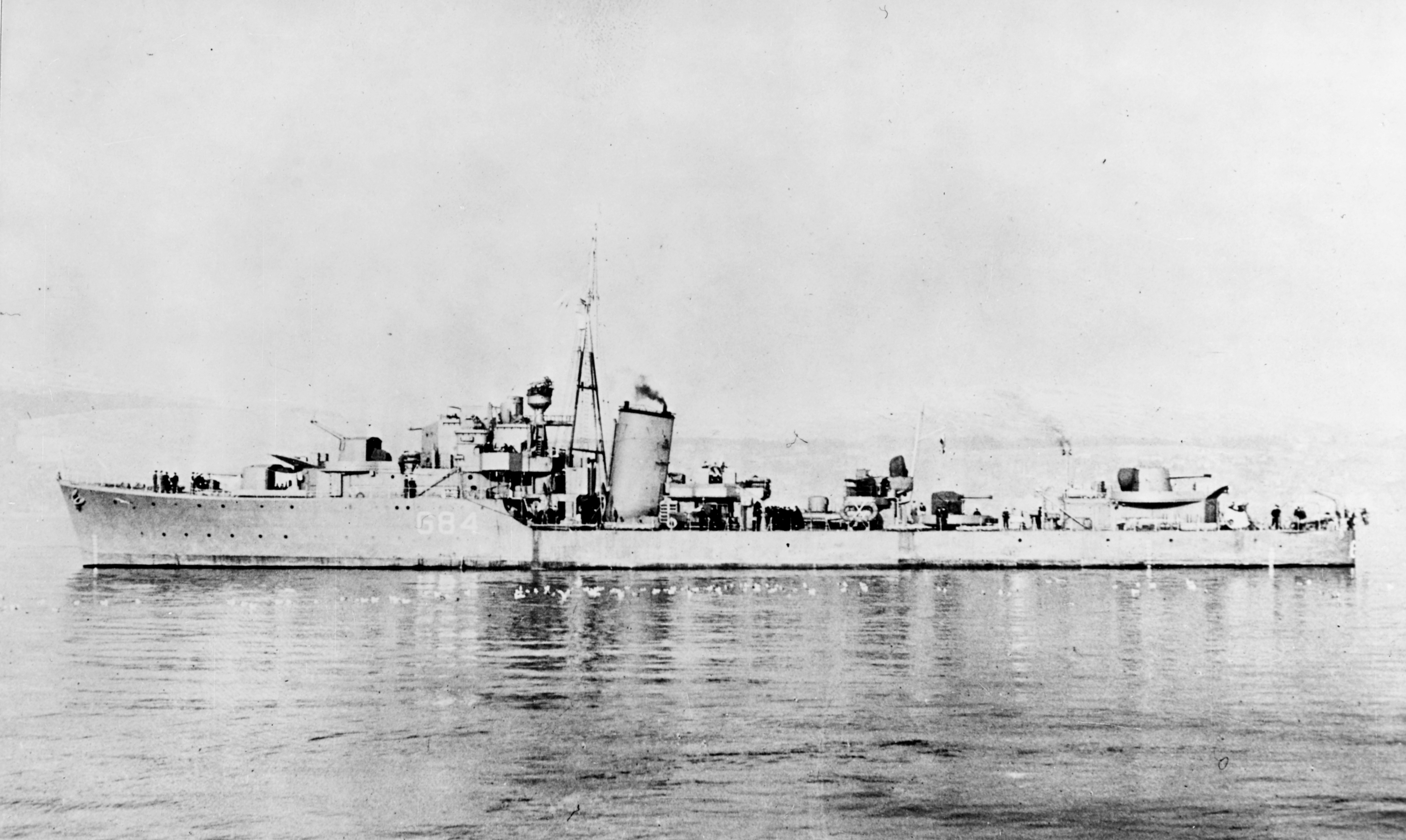 Photograph of Netherlands destroyer HNLMS Van Galen (G84).